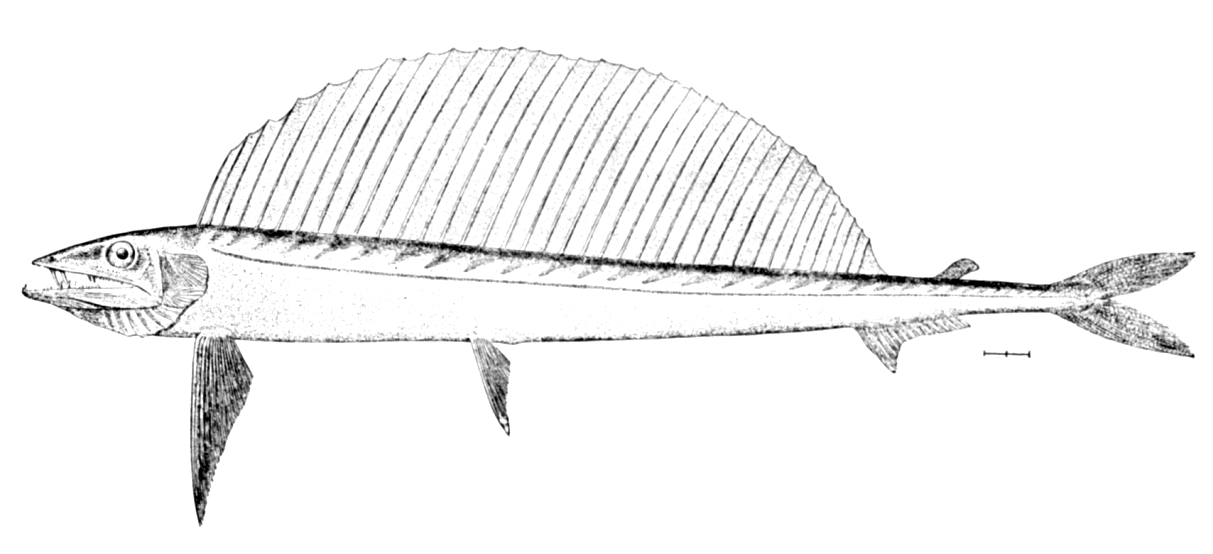 Short snouted lancetfish Alepisaurus brevirostris. #20593 U. S. N. M., obtained in a New York market by E. G. Blackword. Comment: The specimen was originally identified by Goode and Bean as Alepisaurus ferox because it was the only known species in the genus Alepisaurus as of 1896. The second species of lancetfish Alepisaurus brevirostris was only described by Gibbs in 1960. The depicted specimen is Alepisaurus brevirostris since the dorsal fin is low rather than high in its anterior, lacks free anterior rays and is formimg curved profile. The other characteristic traits are the head and the snout short rather than long. See also the images of Alepisaurus ferox and Alepisaurus brevirostris in the FishBase and Fischer, W., Bianchi, G., Scott, W. B. FAO Species Identification Guide for Fishery Purposes. Eastern central Atlantic. – Rome, 1981.